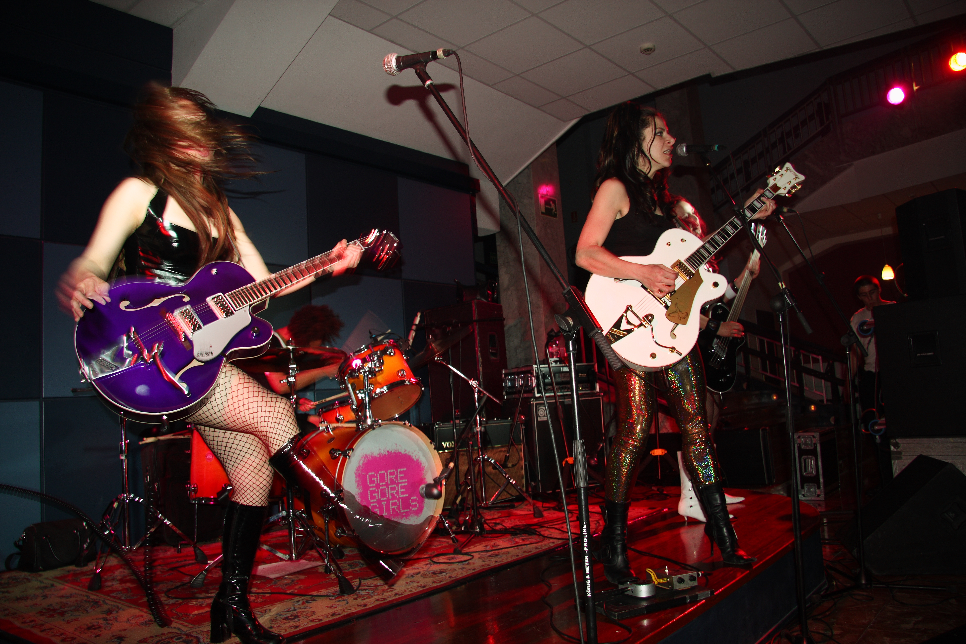 Gore Gore Girls garage rock band from Detroit, Michigan.